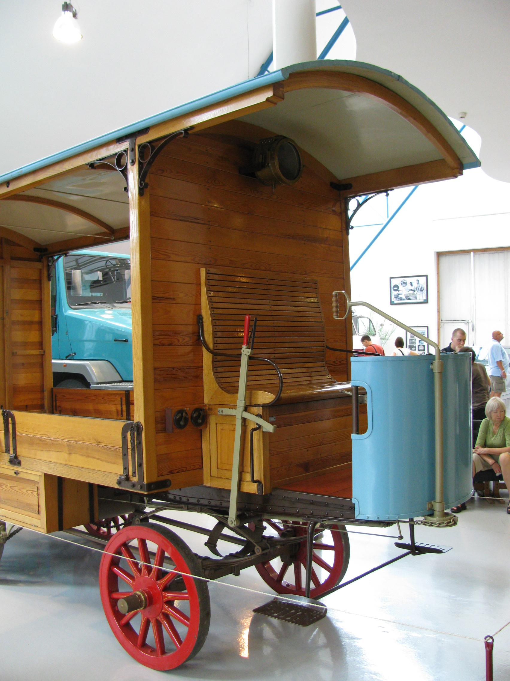 Replica of the first lorry of Nesselsdorfer Wagenbau, in Tatra Technical museum.